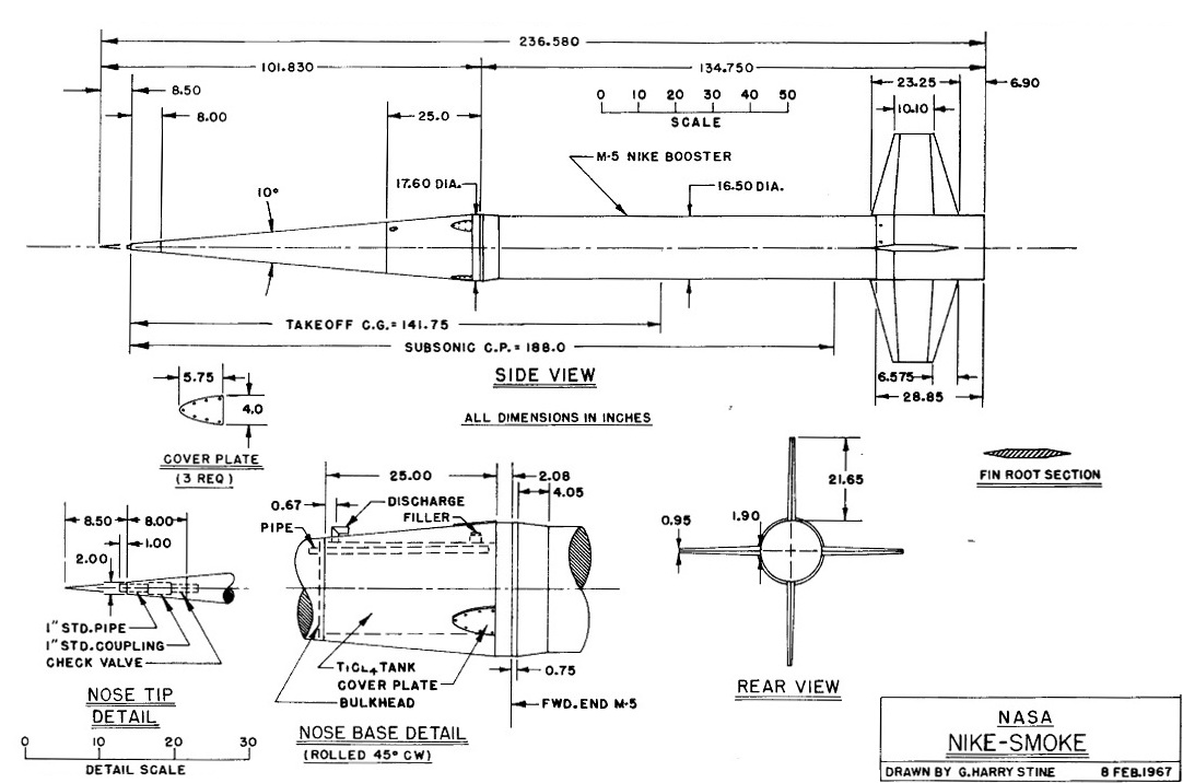 Nike Smoke rocket dimensions Scheme.